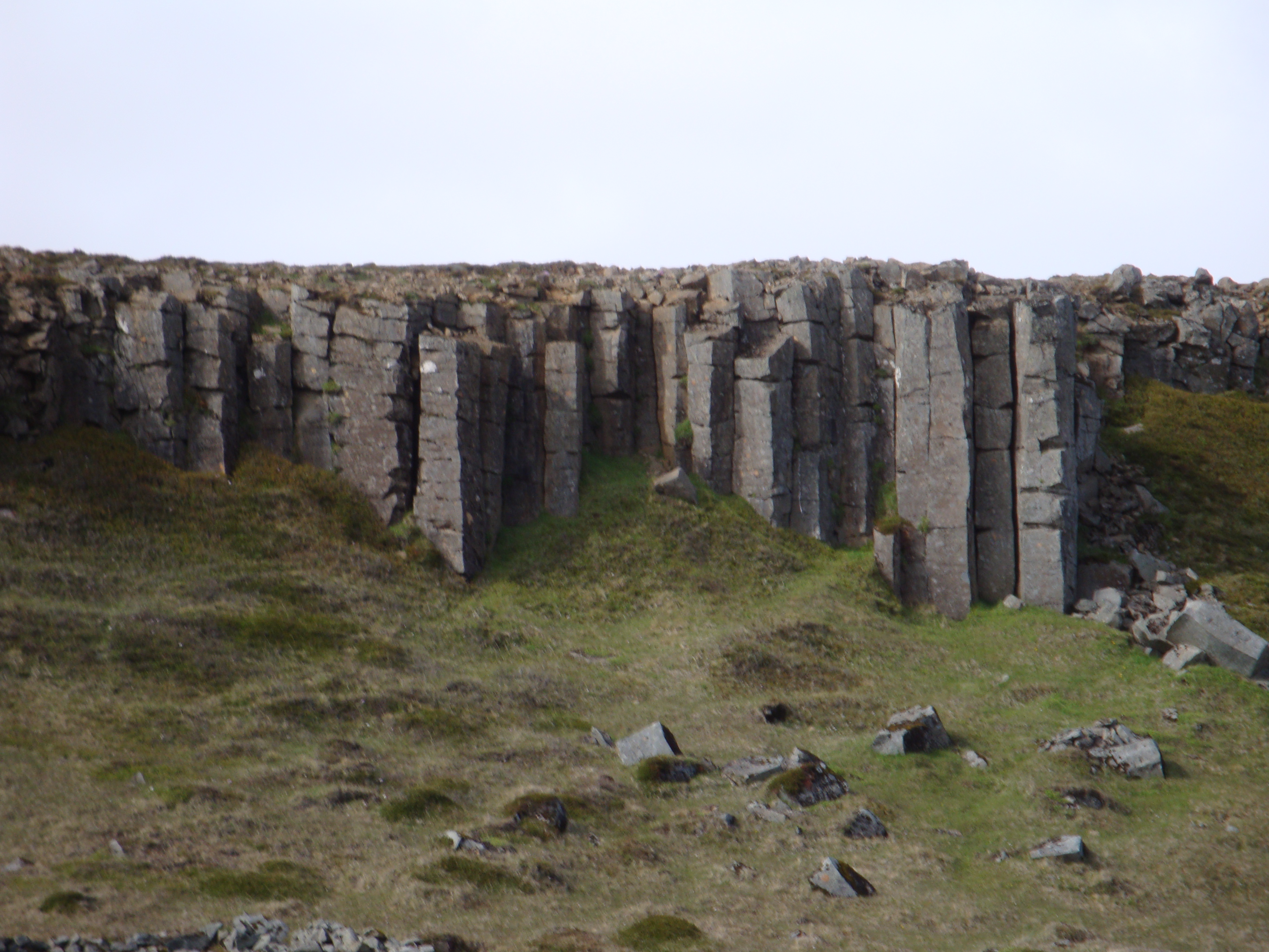 Basalt formation at Gerðuberg, Snæfellsnes, Iceland